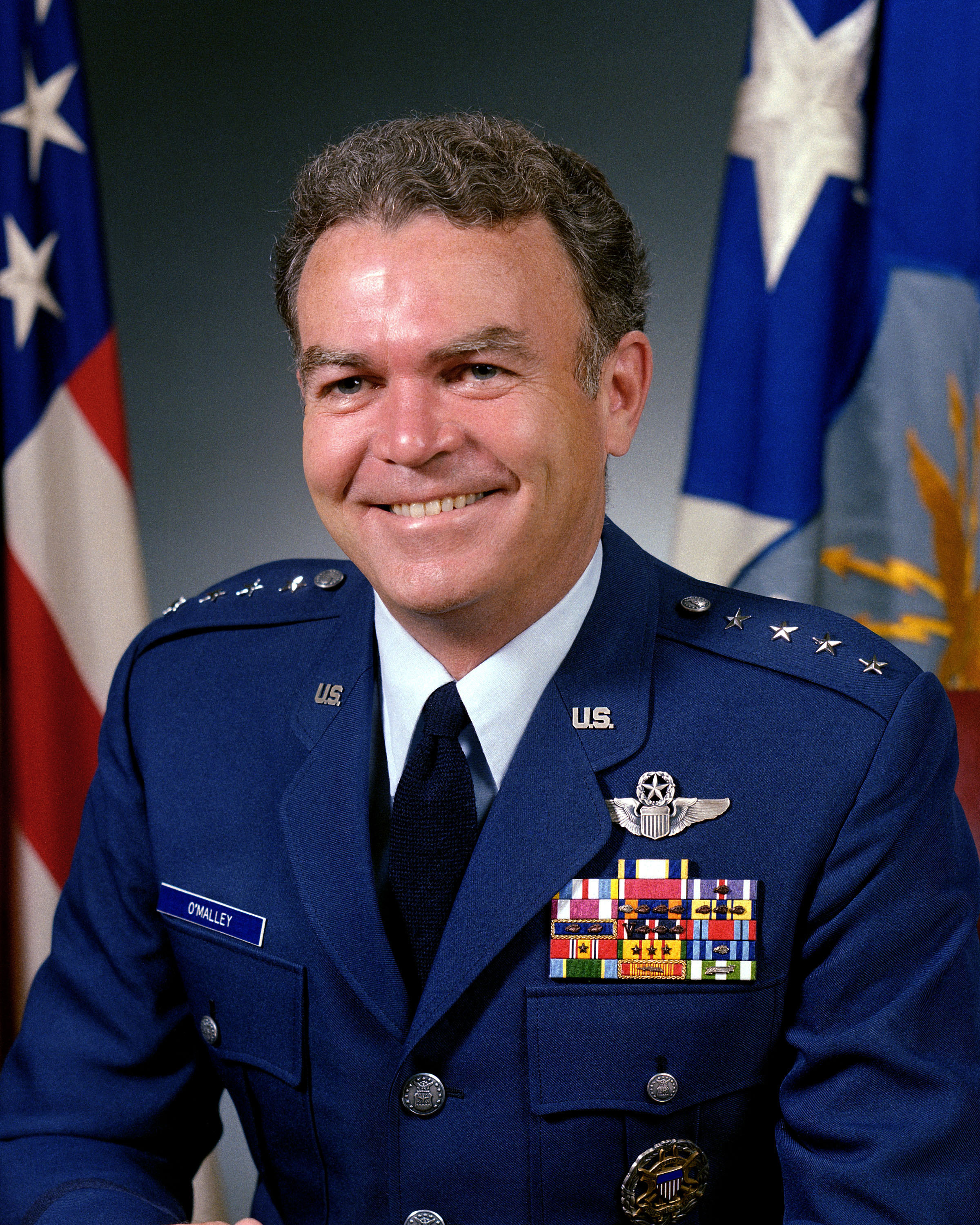 General Jerome F. O'Malley